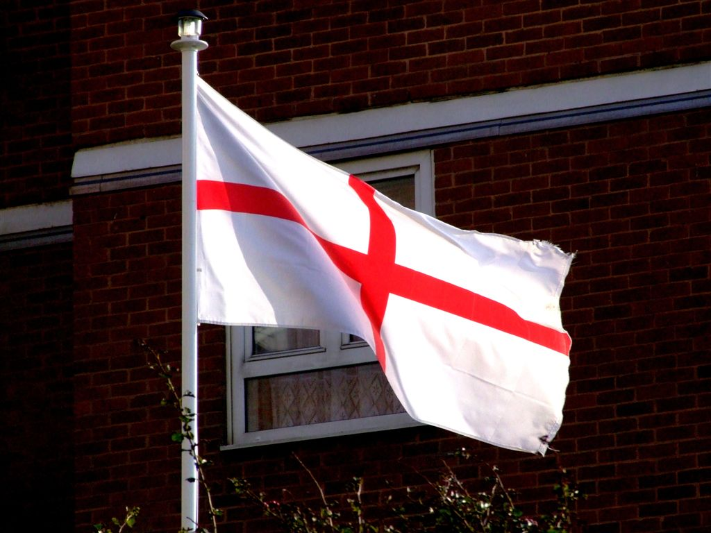 The flag of England is the St George cross.